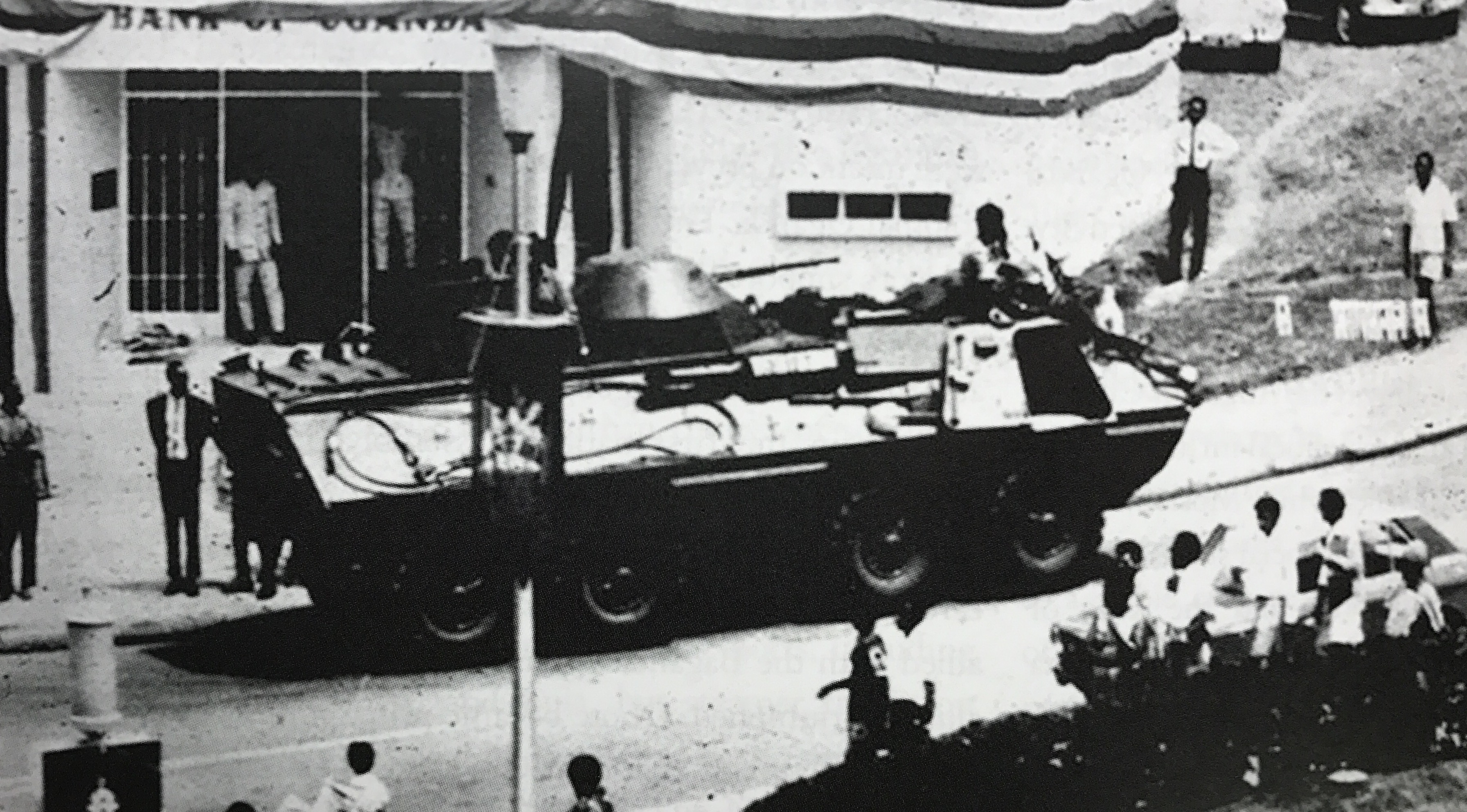 A Uganda Army OT-64 armoured personnel carrier of Czechoslovak origin driving in front of a Bank of Uganda branch building during a military parade in Kampala in the late 1960s